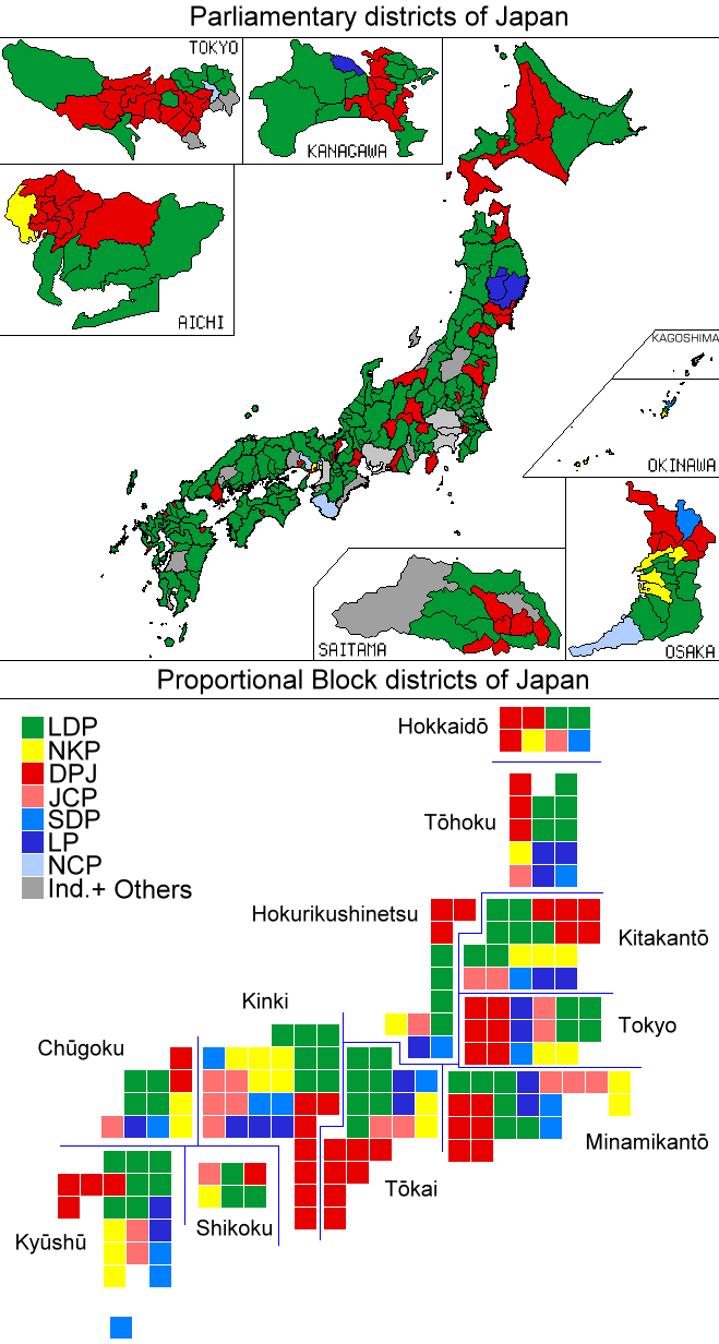 map of seats of Single member of Japanese general election, 2000 ■ - LDP ■ - DPJ ■ - Kōmeitō ■ - LP ■ - CP ■ - SDP ■ - Independent factions